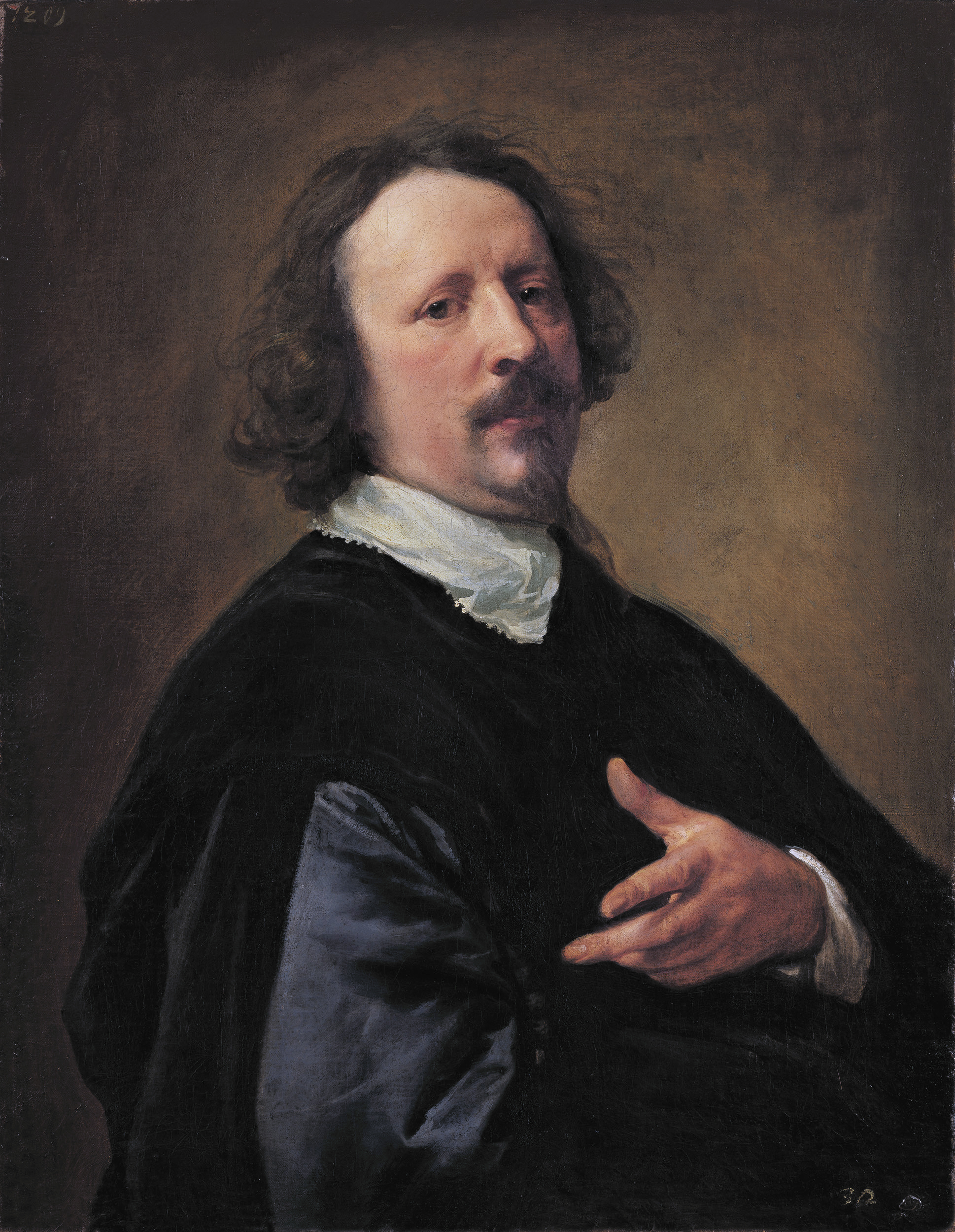 Painter Caspar de Crayer oil on canvas 76 x 60 cm before 1689